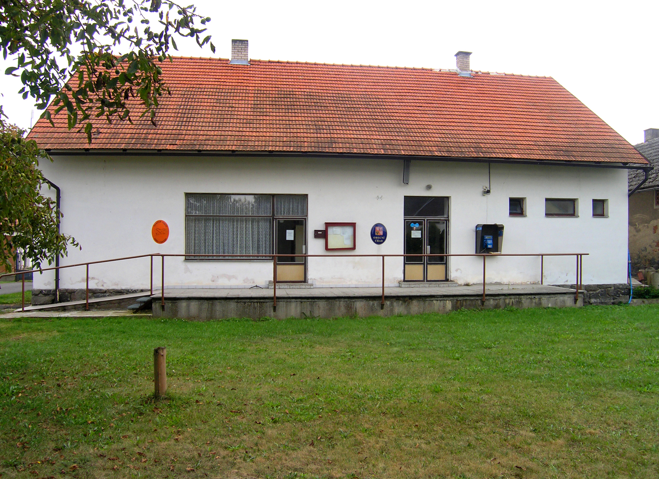 Municipally office in Chleby, Czech Republic